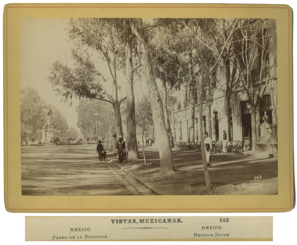 Title: Mexico, Paseo de la Reforma. Alternative Title: Mexico, Reform Drive. Creator: Briquet, Abel Date: ca. 1885-1899 Part Of: Views in Mexico Place: Mexico City (Mexico D.F.), Mexico Physical Description: 1 photographic print on boudoir card mount: albumen; 13 x 19 cm on 16 x 22 cm mount File: ag1985_0372_143c_paseo.jpg Rights: Please cite DeGolyer Library, Southern Methodist University when using this file. A high-resolution version of this file may be obtained for a fee. For details see the web page. For other information, . For more information and to view the image in high resolution, see: View the Mexico: Photographs, Manuscripts, and Imprints